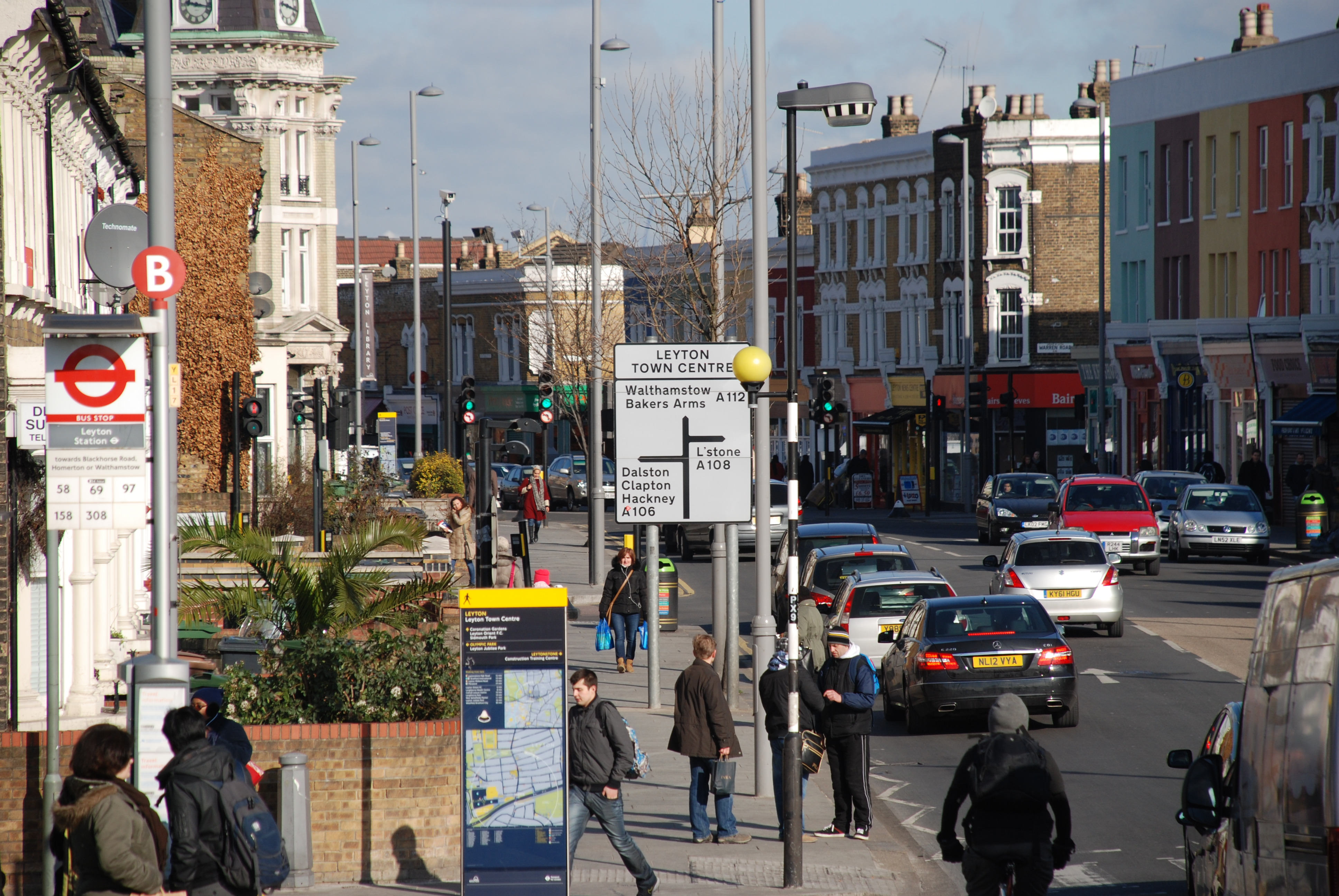 Picture of the centre of Leyton, east London, taken in March 2013.